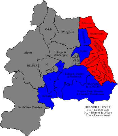 A map of the results of the 2006 Amber Valley Council election. Colour legend by wards won: Labour party Conservative party Wards in grey were not contested in 2006.